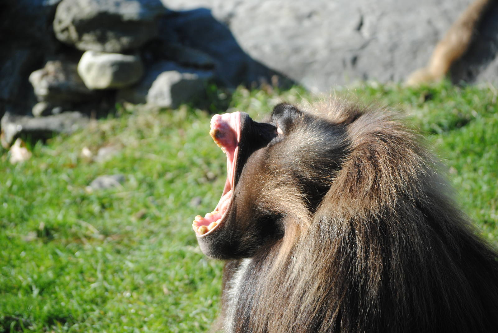 Gelada at Bronx Zoo, currently (2016) the only zoo in the US to hold the species.